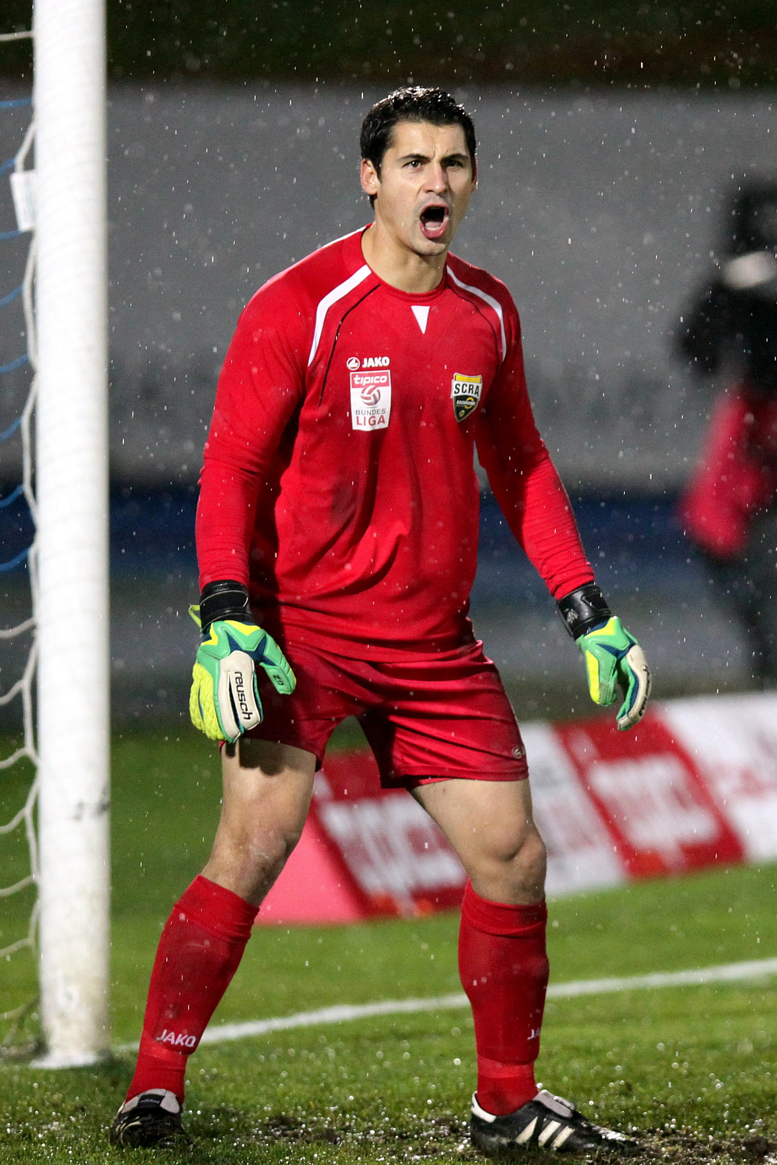 2014–15 Austrian Football Bundesliga: SC Wiener Neustadt vs. SC Rheindorf Altach (2:0 / 0:0) at 2014-12-06 in the Stadion Wiener Neustadt. – The photo shows en: (SC Wiener Neustadt/SC Rheindorf Altach). The making of this work was supported by Wikimedia Austria. For other files made with the support of Wikimedia Austria, please see the category Supported by Wikimedia Österreich.